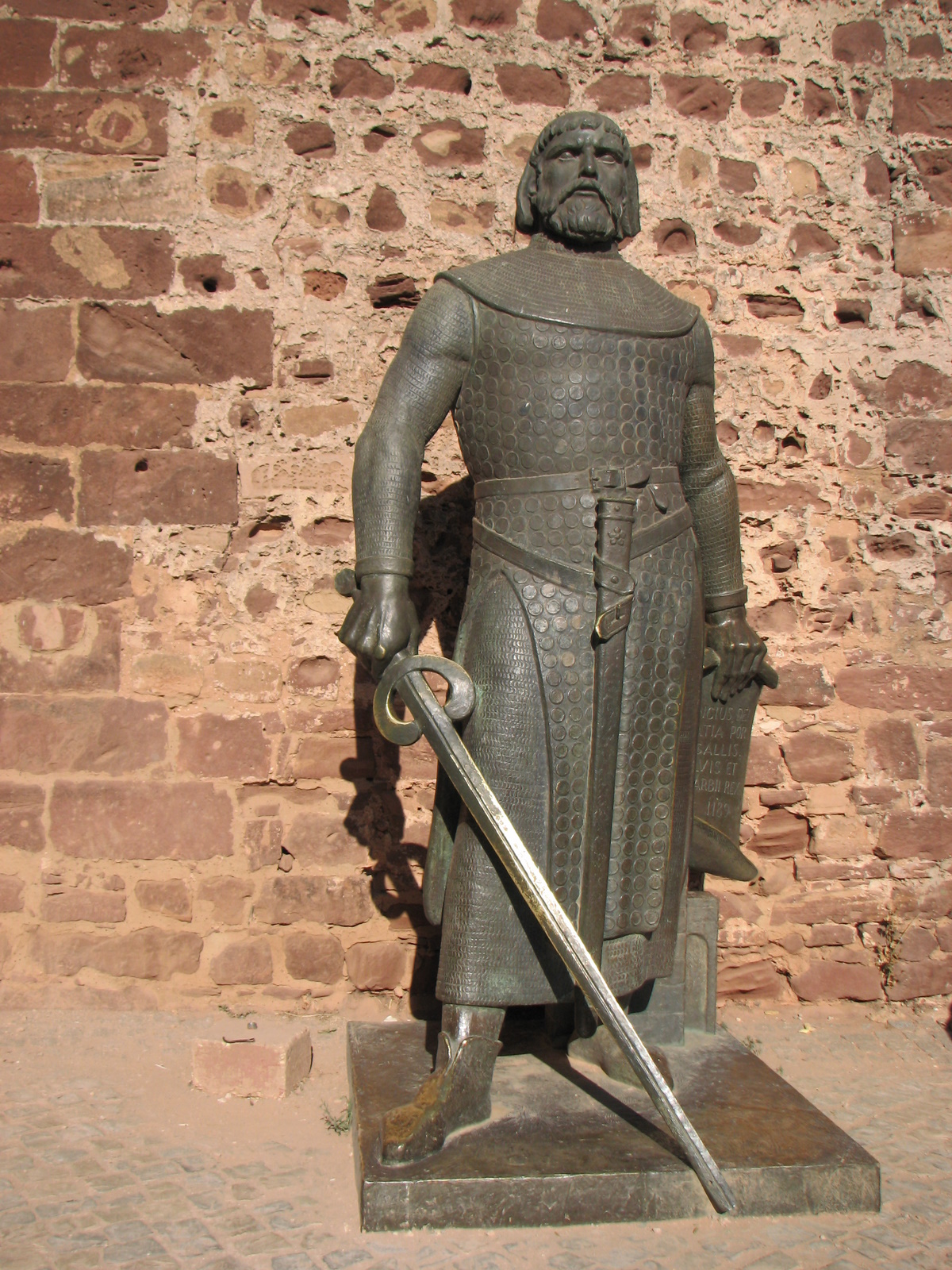 Statue of Sancho I - Silves castle - ancient capital of Algarve - The Algarve, Portugal